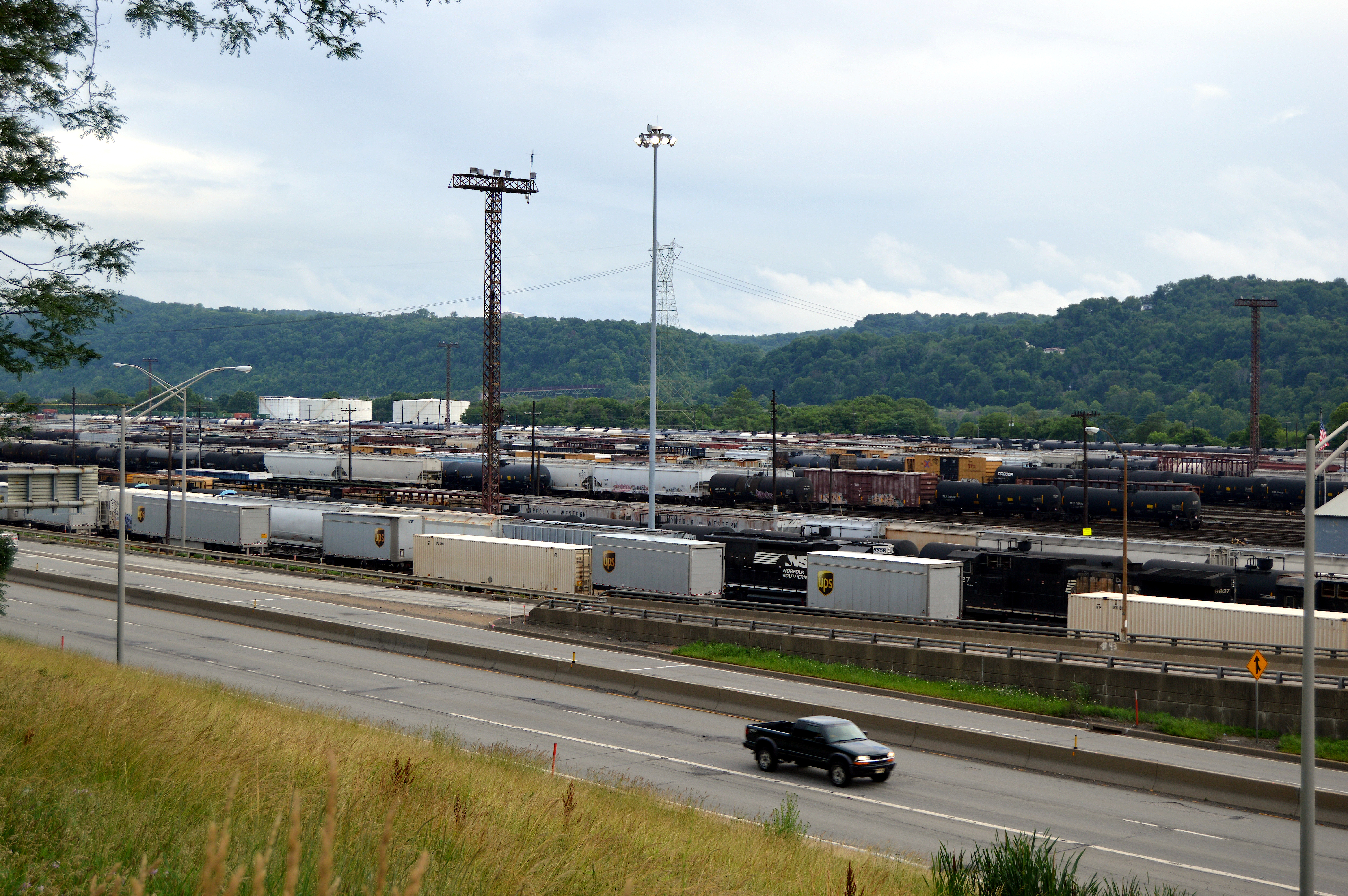 Overview of Norfolk Southern's large Conway Yard, seen looking southwest from Fourth Avenue south of Fifteenth Street in Freedom, Pennsylvania, United States. In the foreground, a truck heads northbound on Ohio River Boulevard, Pennsylvania Route 65.